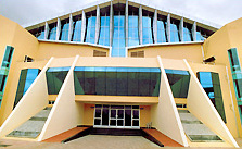 Indoor Stadium A/C, Gachibowli